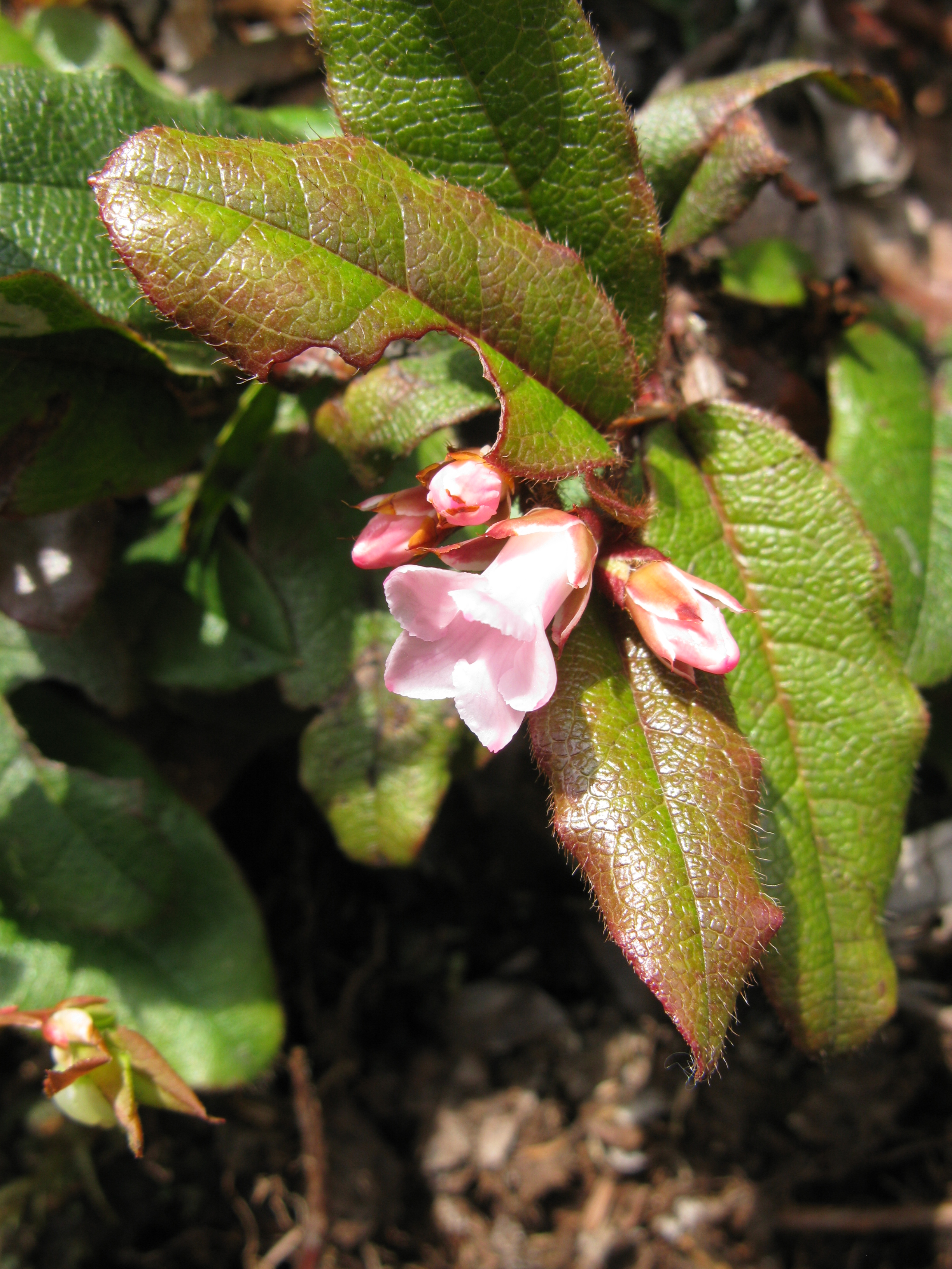 Epigaea asiatica, Aizu area, Fukushima pref., Japan